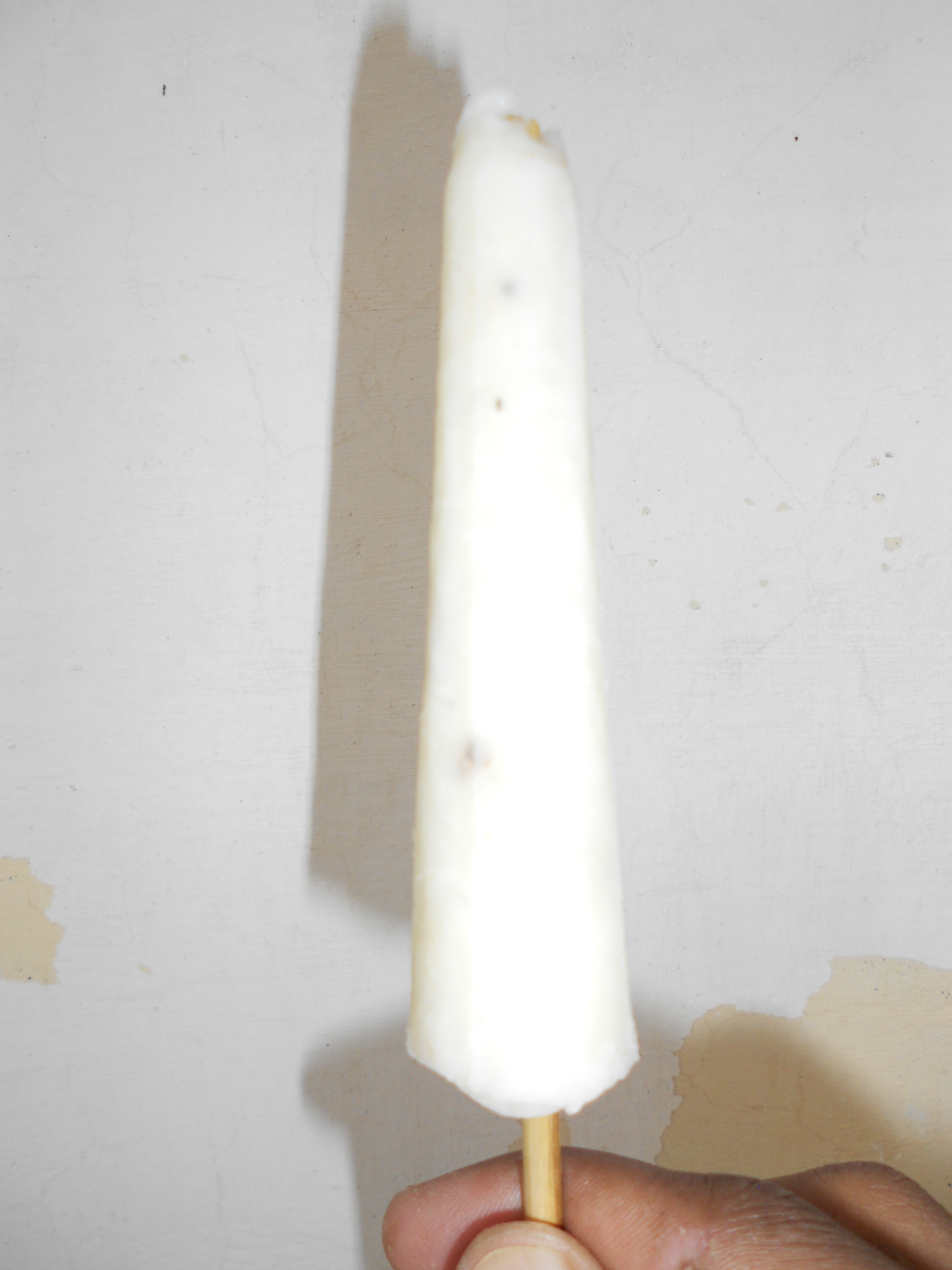 Desi Milk's Kulfi